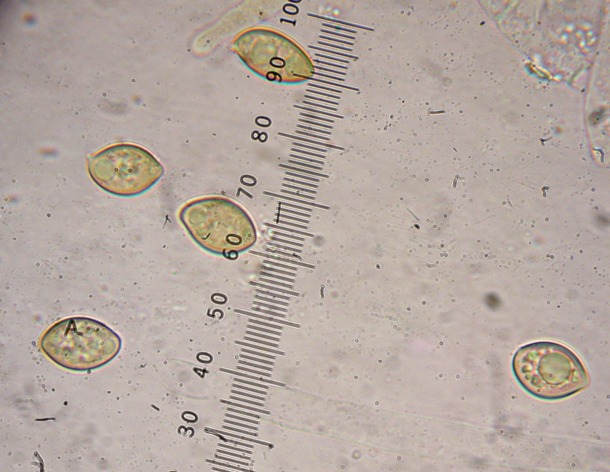 Spores from the bolete mushroom Boletus amygdalinus Thiers.